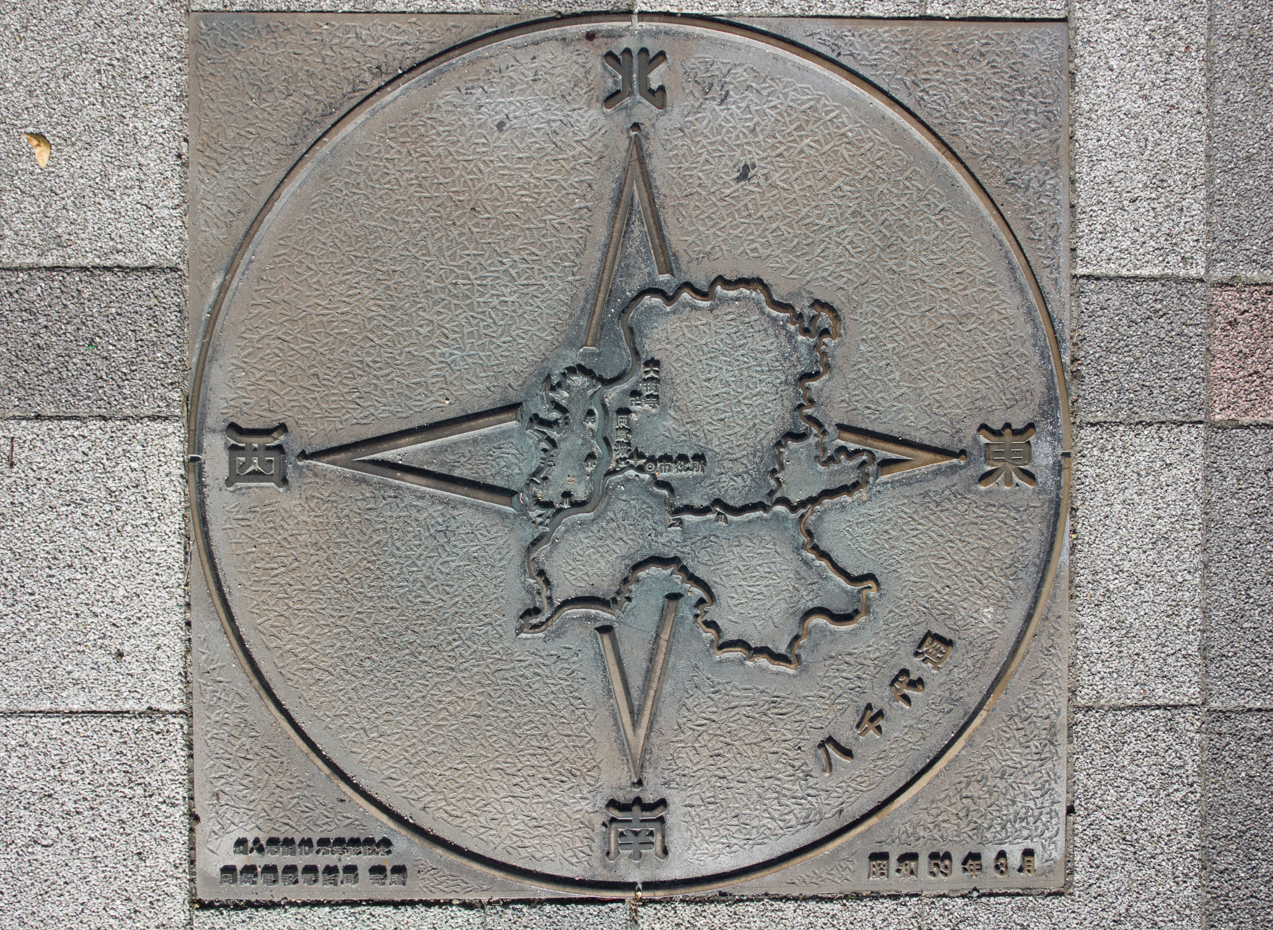 The monument which is commemorate the telephone subscriber has surpassed 100,000 in Okazaki City at Yachiyo-dori Ave. in Okazaki, Aichi, Japan